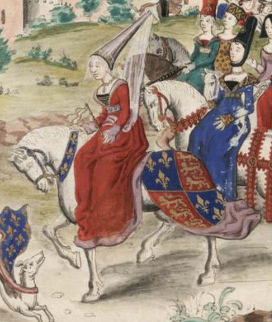 Isabella of France